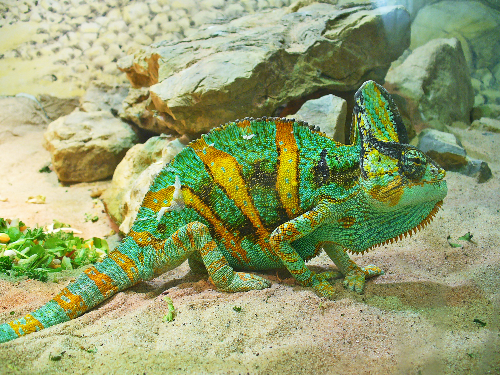 Chamaeleo calyptratus, Chamaeleonidae, Veiled Chameleon; Staatliches Museum für Naturkunde Karlsruhe, Germany.